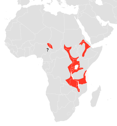 Distribution of Epomophorus labiatus